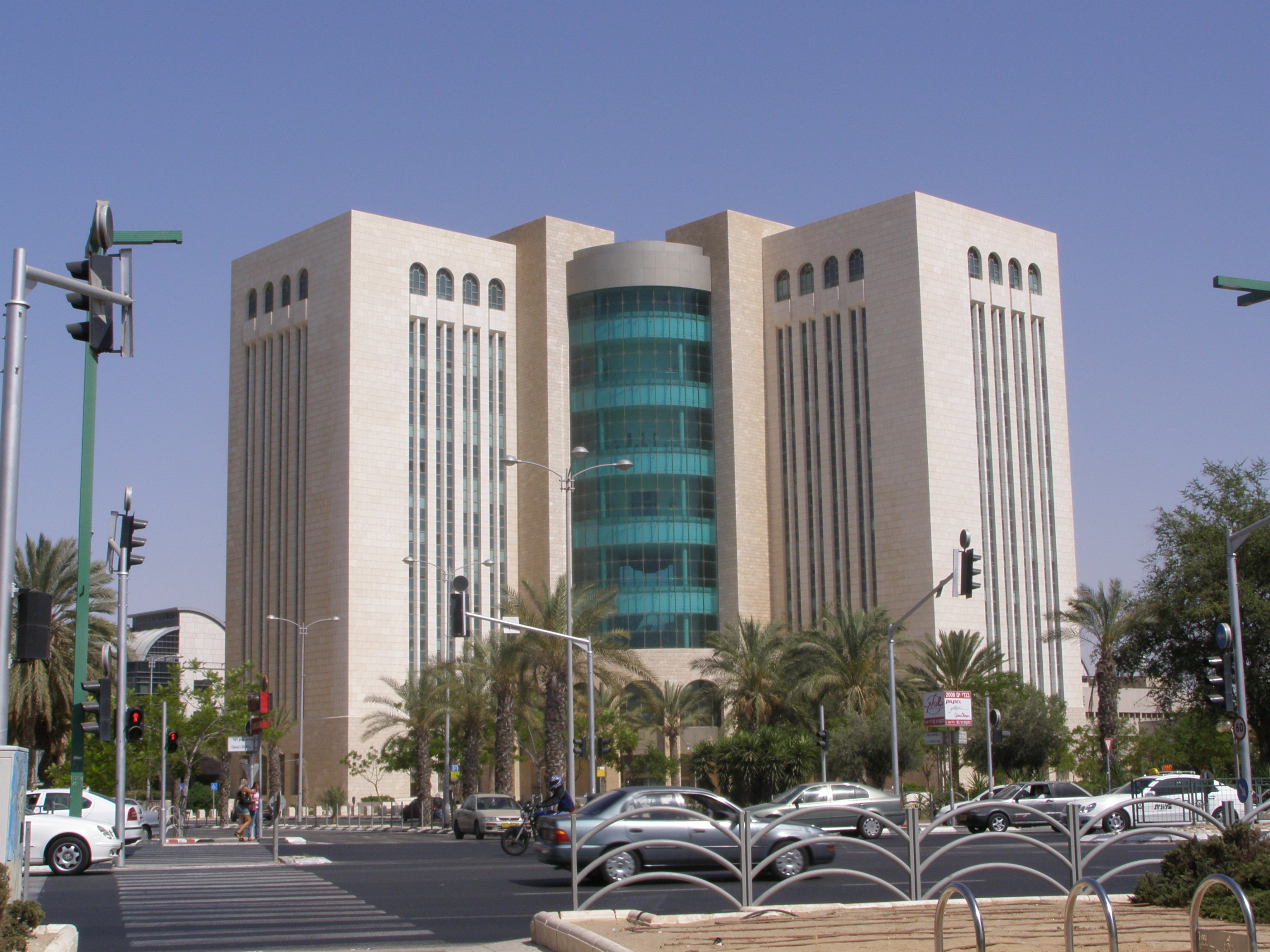 Beersheba, Merkaz Ezrahi, Court